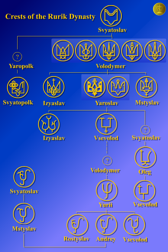 Own work, crests of the Ruriks (based on the images from seals and coins).